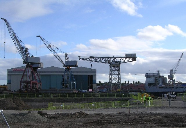 Govan Shipyard. Govan Shipyard was acquired by BAE SYSTEMS from Kvaerner in 1999. The ship being built on the right is Royal Fleet Auxiliary Cardigan Bay, an amphibious landing ship designed to carry around 350 troops, plus two helicopters and a one landing craft unit.